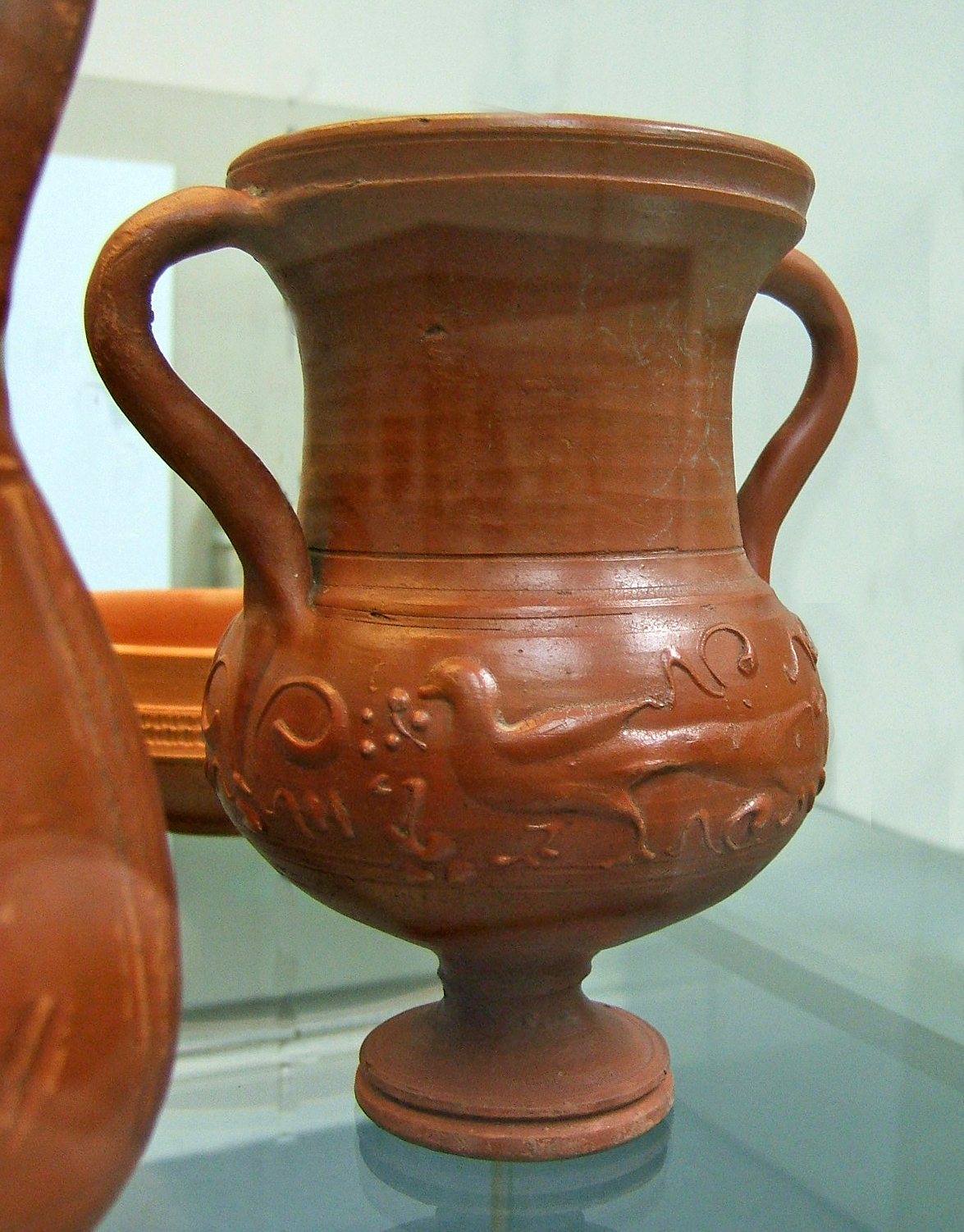 Samian ware from Rheinzabern with barbotine decoration. Late 2nd century AD. Ht.18.5 cm. British Museum, London. GR 1981.12-18.45